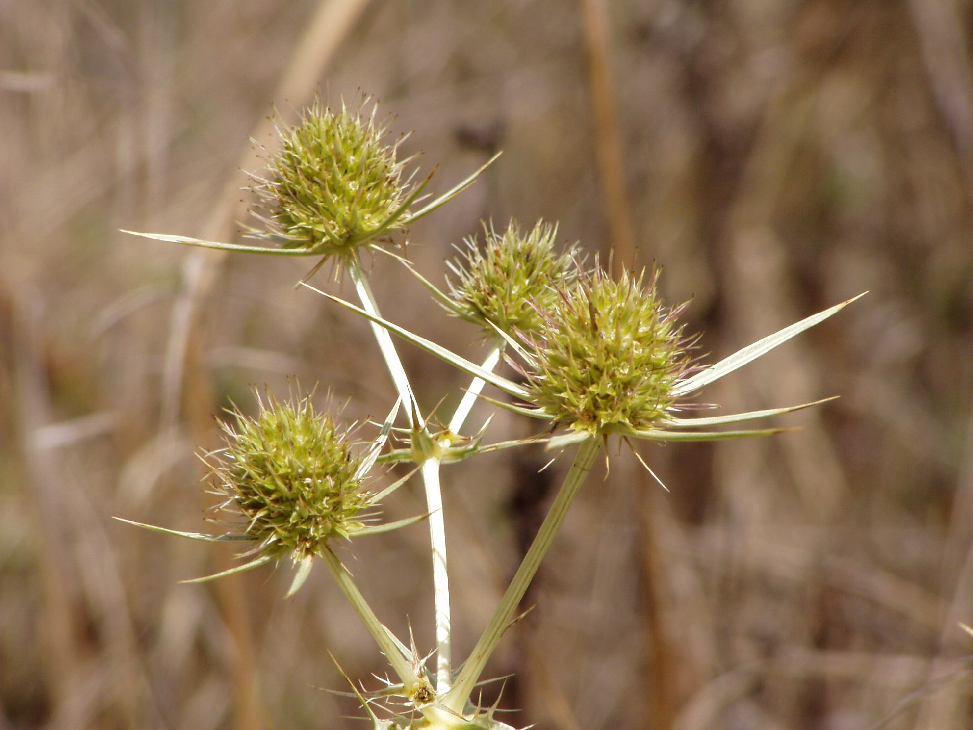 Field Eryngo